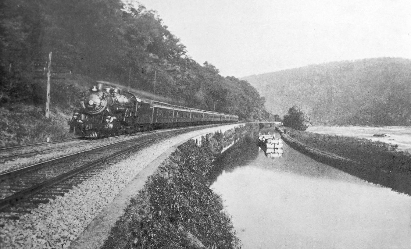 Postcard photo of the Capitol Limited along the banks of the Potomac River